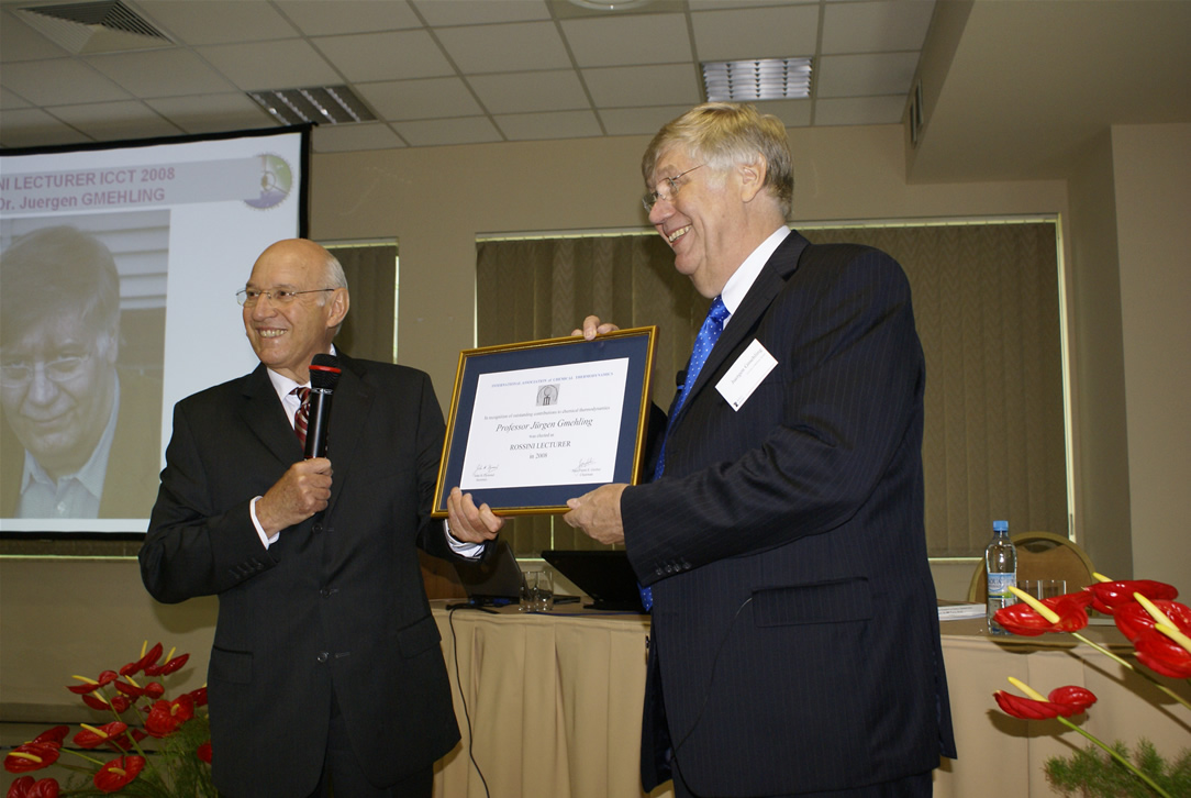 Picture of the Presentation of the Rossini Lectureship Award to Prof. Gmehling at the International Conference of Chemical Thermodynamics (ICCT), Warsaw, August 2008